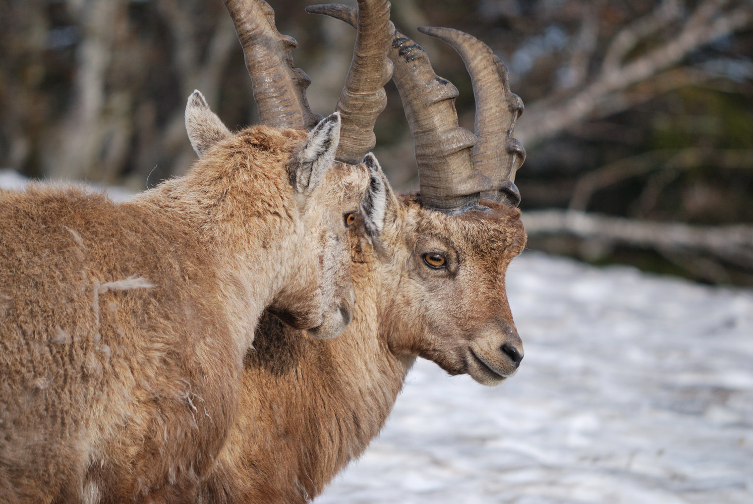 Bouquetins at the Creux-du-Van